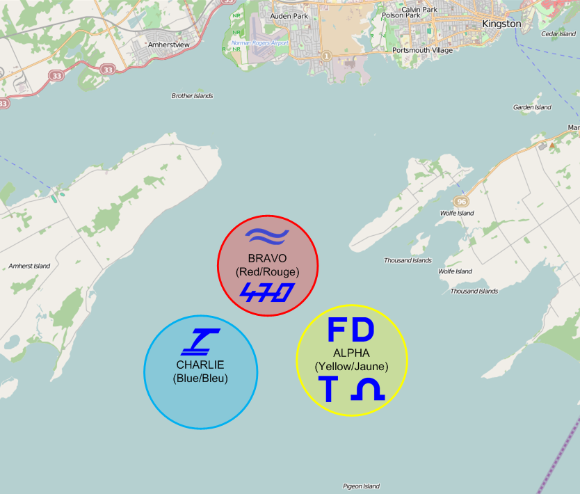 Kingston Olympic Course Area's 1976 This map may be incomplete, and may contain errors. Don't rely solely on it for navigation.